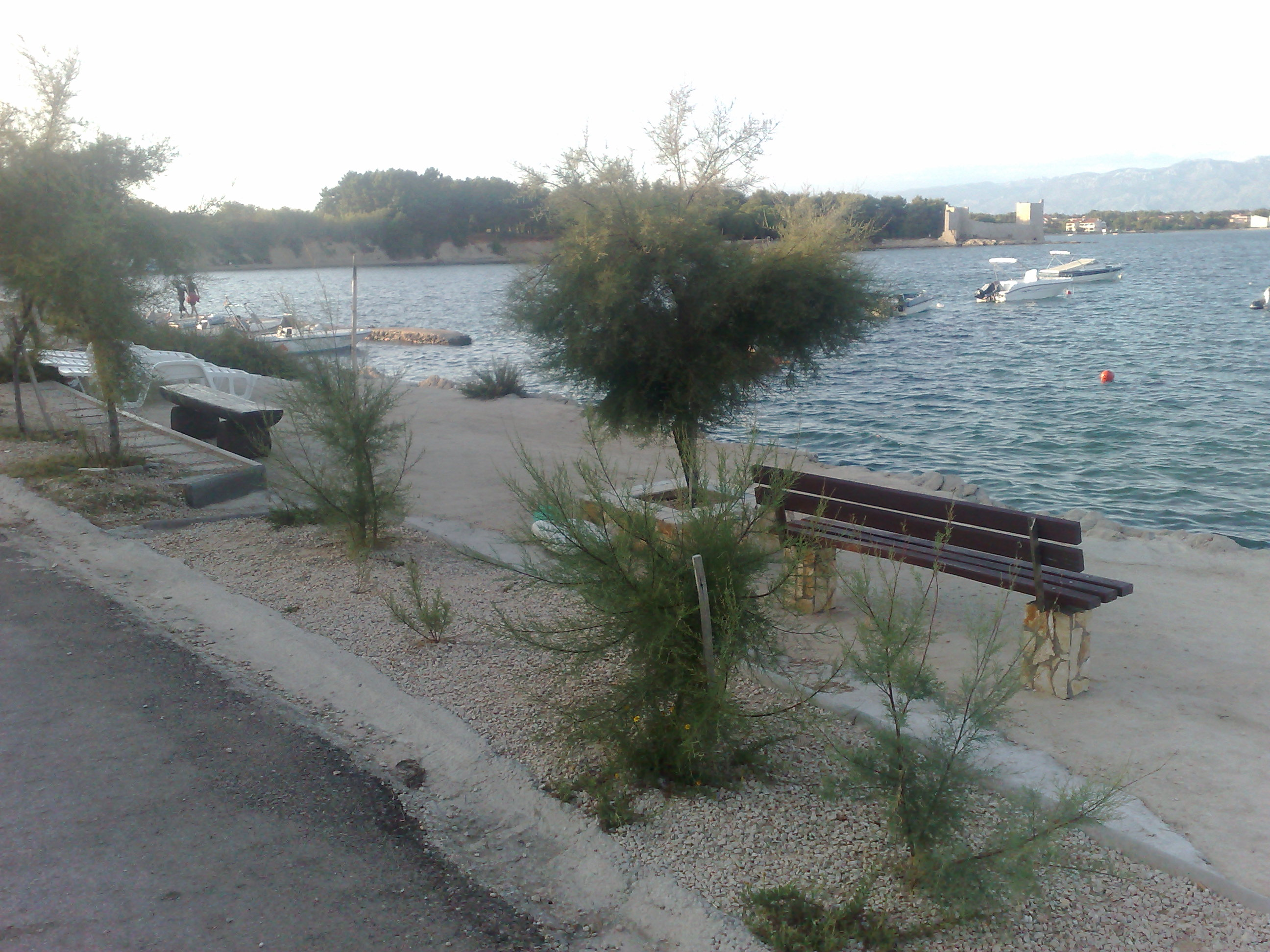 The bay of Vir